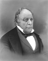 Alexander Parris, crayon portrait c. 1887 by W.E. Chickering; The Bostonian Society, Old State House, Boston, MA.